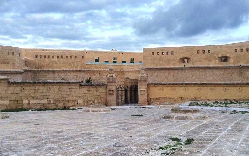 Forti Sant' Iermu